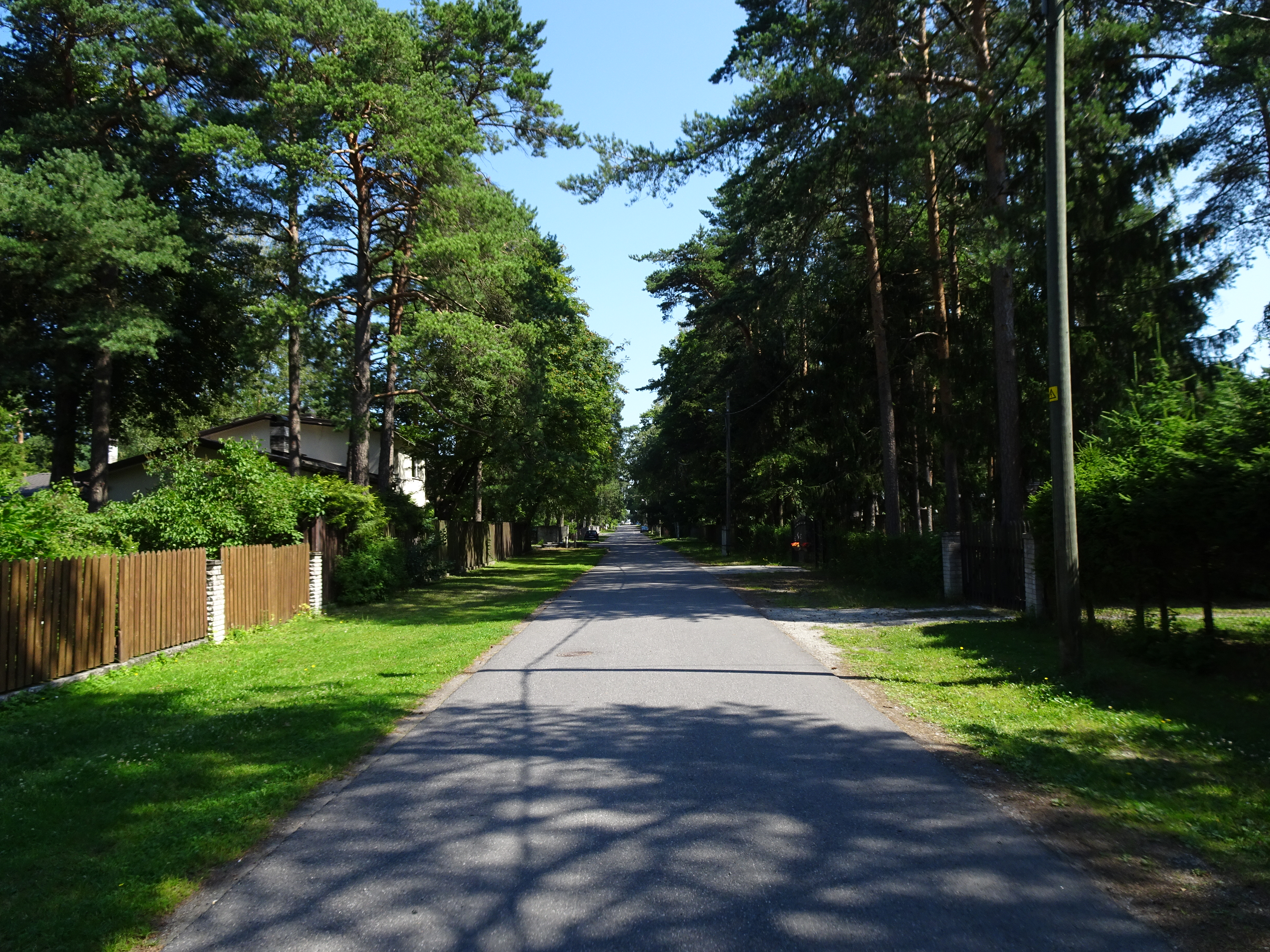 Lauliku Street in Tallinn, Estonia